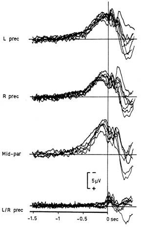 Bereitschaftspotential (also pre-motor potential or readiness potential); Kornhuber and Deecke (Uploaded by Lueder Deecke)